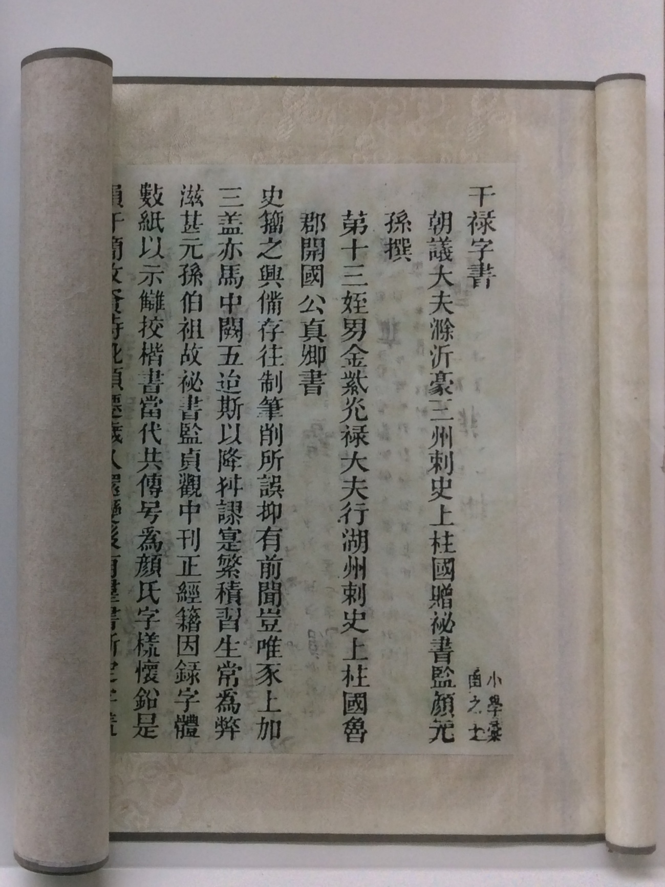 Ganlu Zishu (干祿字書) exhibit in the Chinese Dictionary Museum, on the grounds of Huangcheng Xiangfu